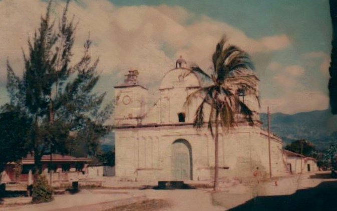 Foto Antigua. Old church in Ocotepeque, Honduras.